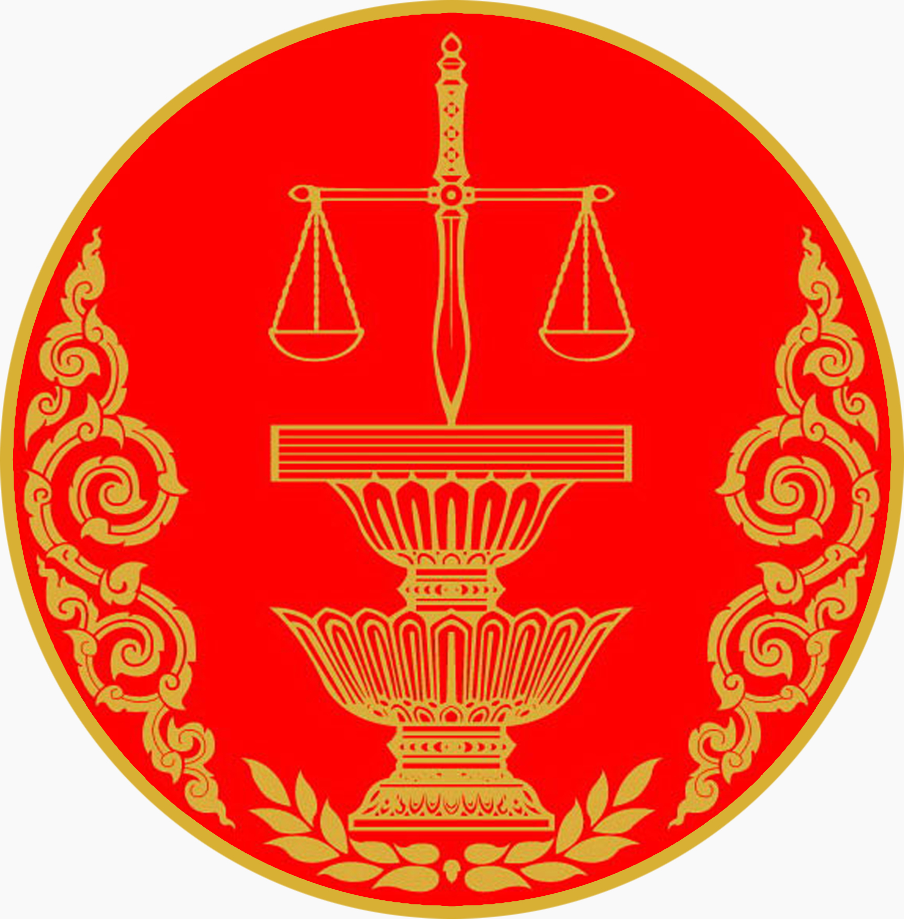 What: Seal of the Constitutional Court of Thailand